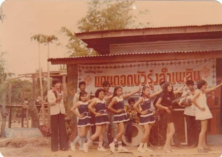 "Daen Dok Bua Rung Lam Plearn", a local Mor lam band of Buangam Village, Ubon Ratchathani, Thailand; the picture was taken in 1980.